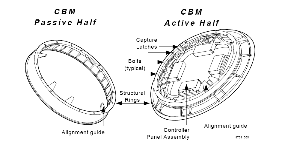 The Common Berthing Mechanism (CBM) connects one pressurized module to another pressurized module on the U.S. segment. The CBM has an active and a passive half. The active half contains a structural ring, capture latches, alignment guides, powered bolts, and controller panel assemblies. Only the active half of the CBM is connected to power and data. The passive half has a structural ring, capture latch fittings, alignment guides, and nuts. During the installation of a module that uses CBM, a robotic arm moves the module with the passive half into the capture envelope of the active half. Following this, the latching process begins. .Similar to the CBM active half is the Manual Berthing Mechanism (MBM). The MBM serves as a temporary attachment point and is located on the Z1 truss segment. The MBM is manually operated by an EVA crew person and can be mated with any passive CBM.